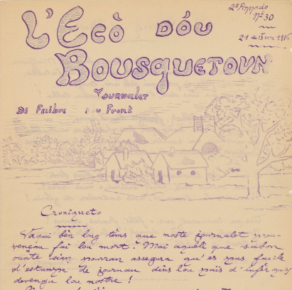 Header of Nr 30 of the Ecò dóu Bousquetoun paper directed by Boudon Lashermes (1916 publication, now Public Domain).